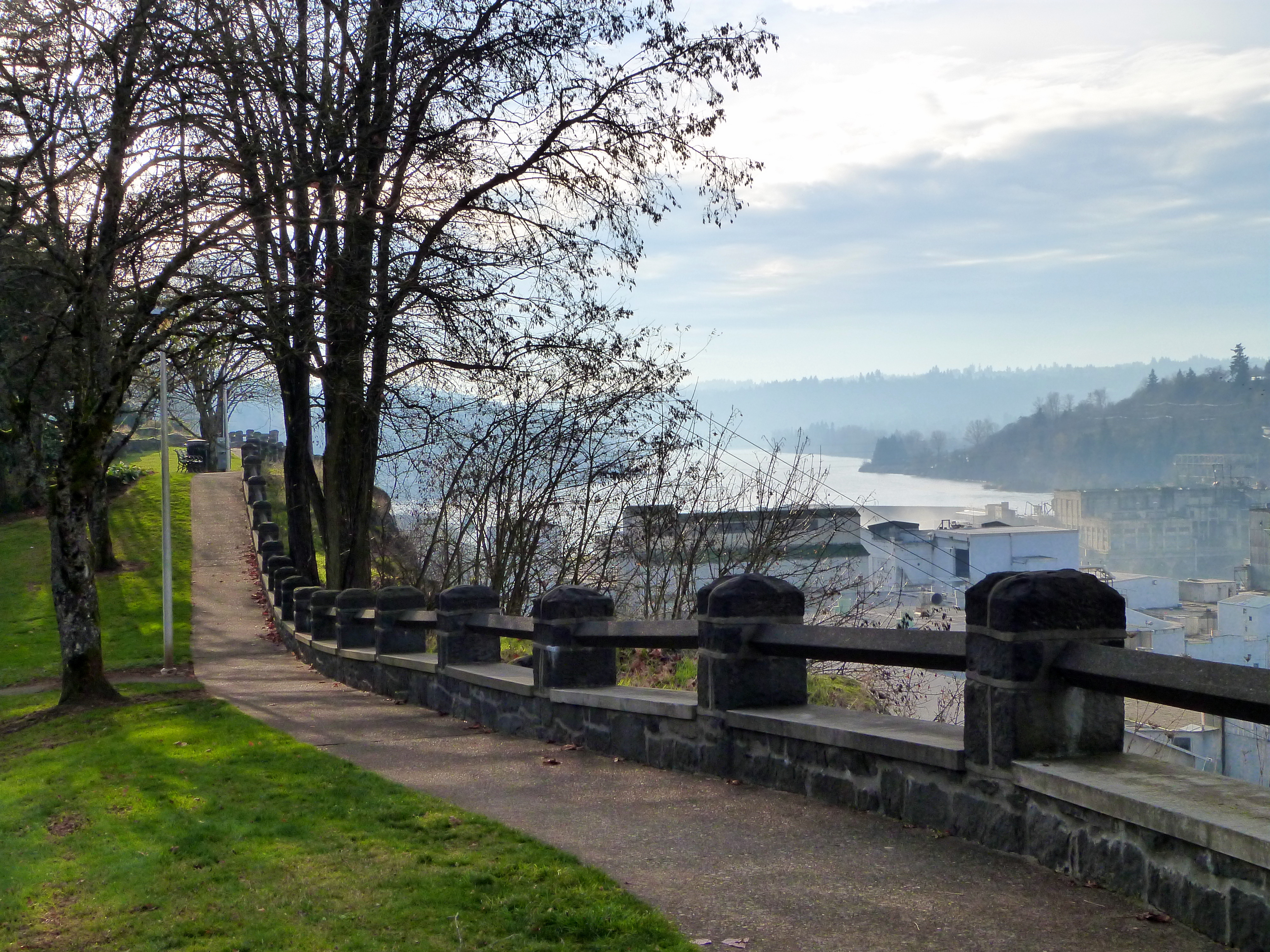 A portion of the historic McLoughlin Promenade in Oregon City, Oregon, United States. The Willamette River is in the background.